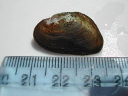 Dwarf wedgemussel, Alasmidonta heterodon. 2002.